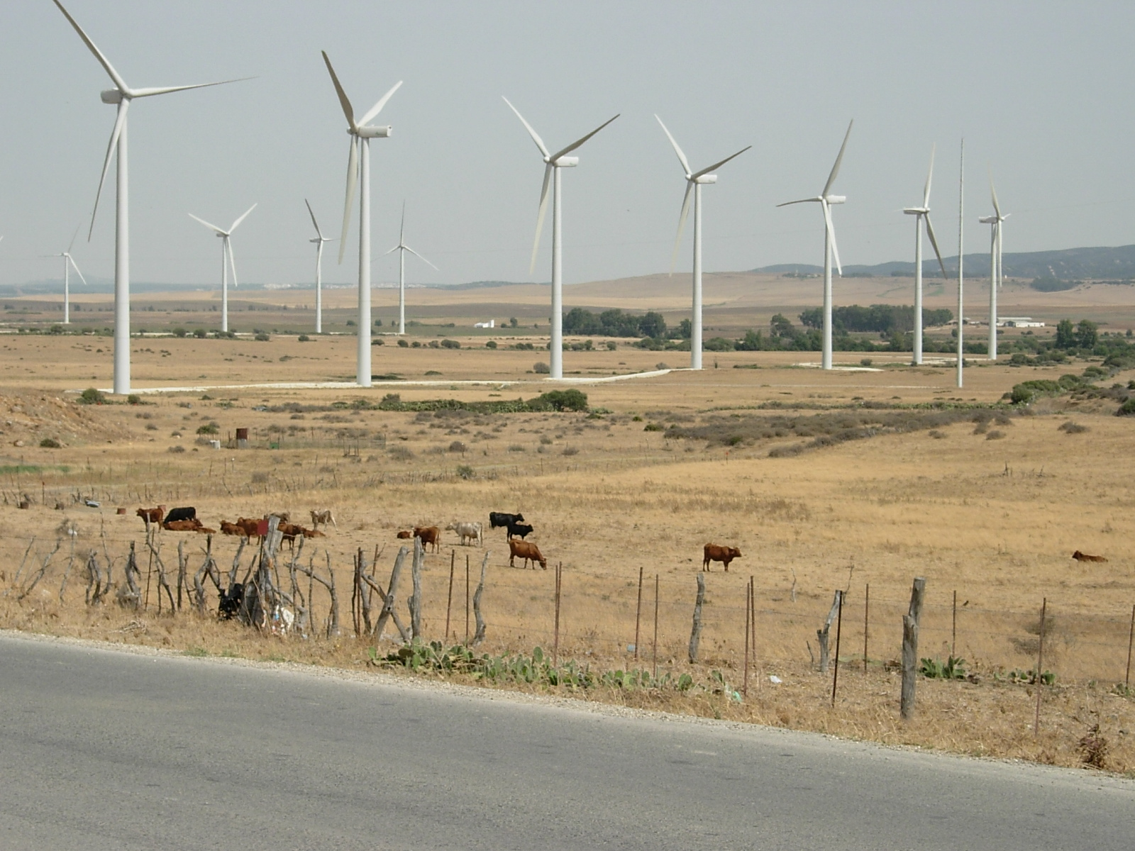 Wind generators in Facinas (Tarifa, Province of Cádiz, Spain).